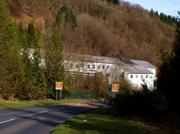 Old Eastern United Colliery buildings Before its demise at Christmas, 1965 this complex of buildings housed the pit head workings of the Eastern United Colliery. The mine had an 'adit' or more or less horizontal tunnel dug into the hillside until a commercially viable 'level' or strata of coal was reached.